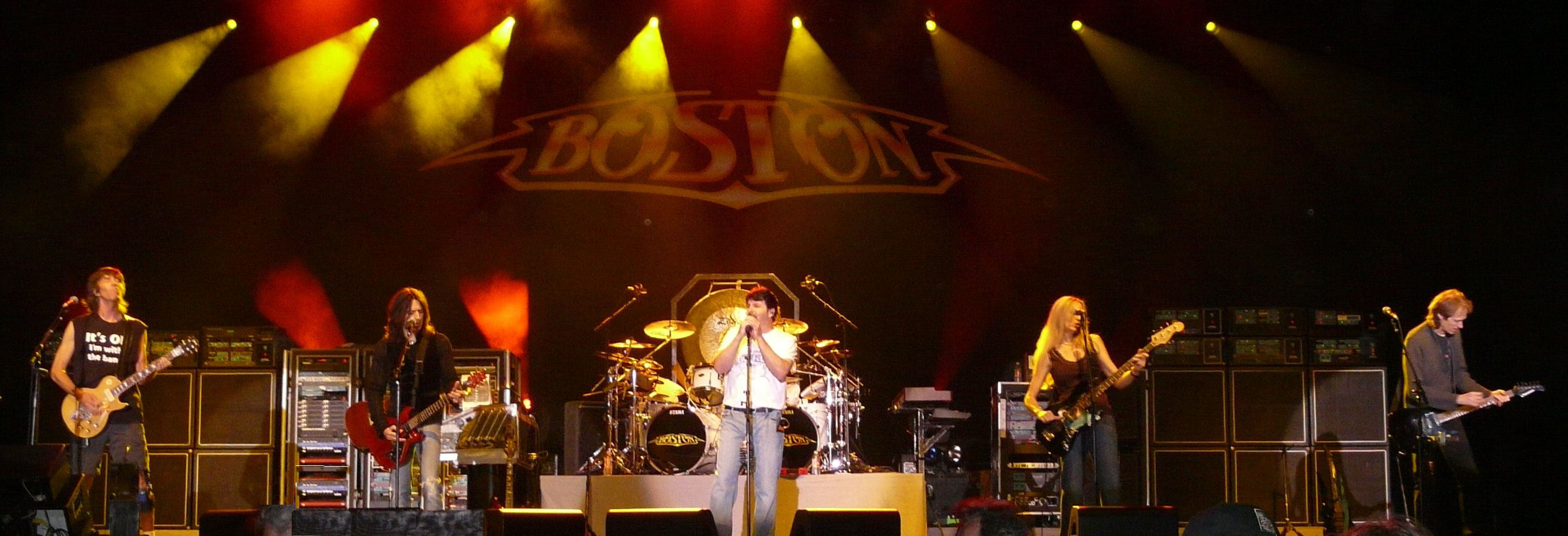 BOSTON Photo by Matt Becker, Taken on June 13, 2008 at the Grand Casino in Hinckley, MN Left to right: Tom Scholz, Michael Sweet, Tommy DeCarlo, Kimberly Dahme, and Gary Pihl